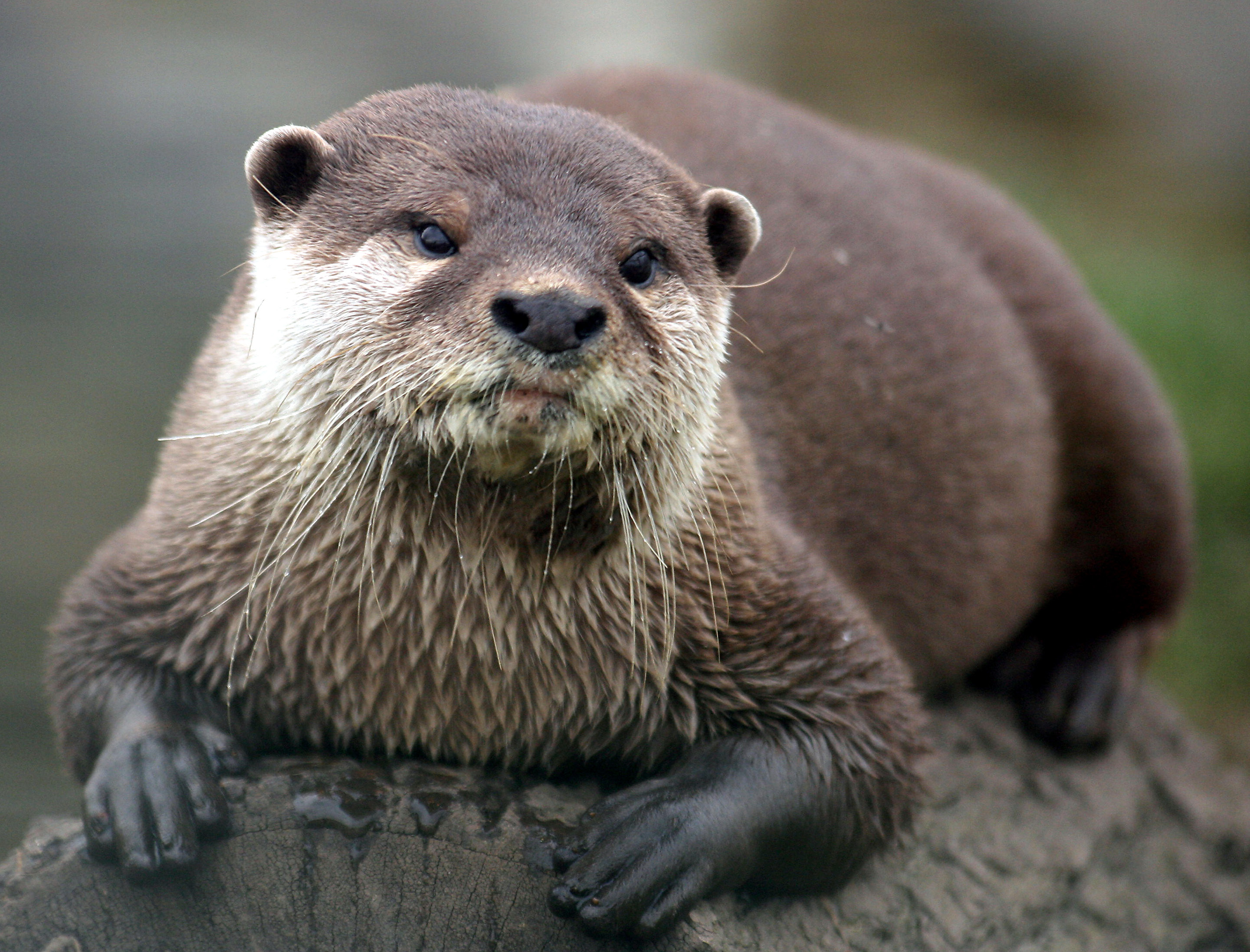 Otter - Eagle Heights Wildlife Park, Kent, England - Sunday, 24 February 2008.